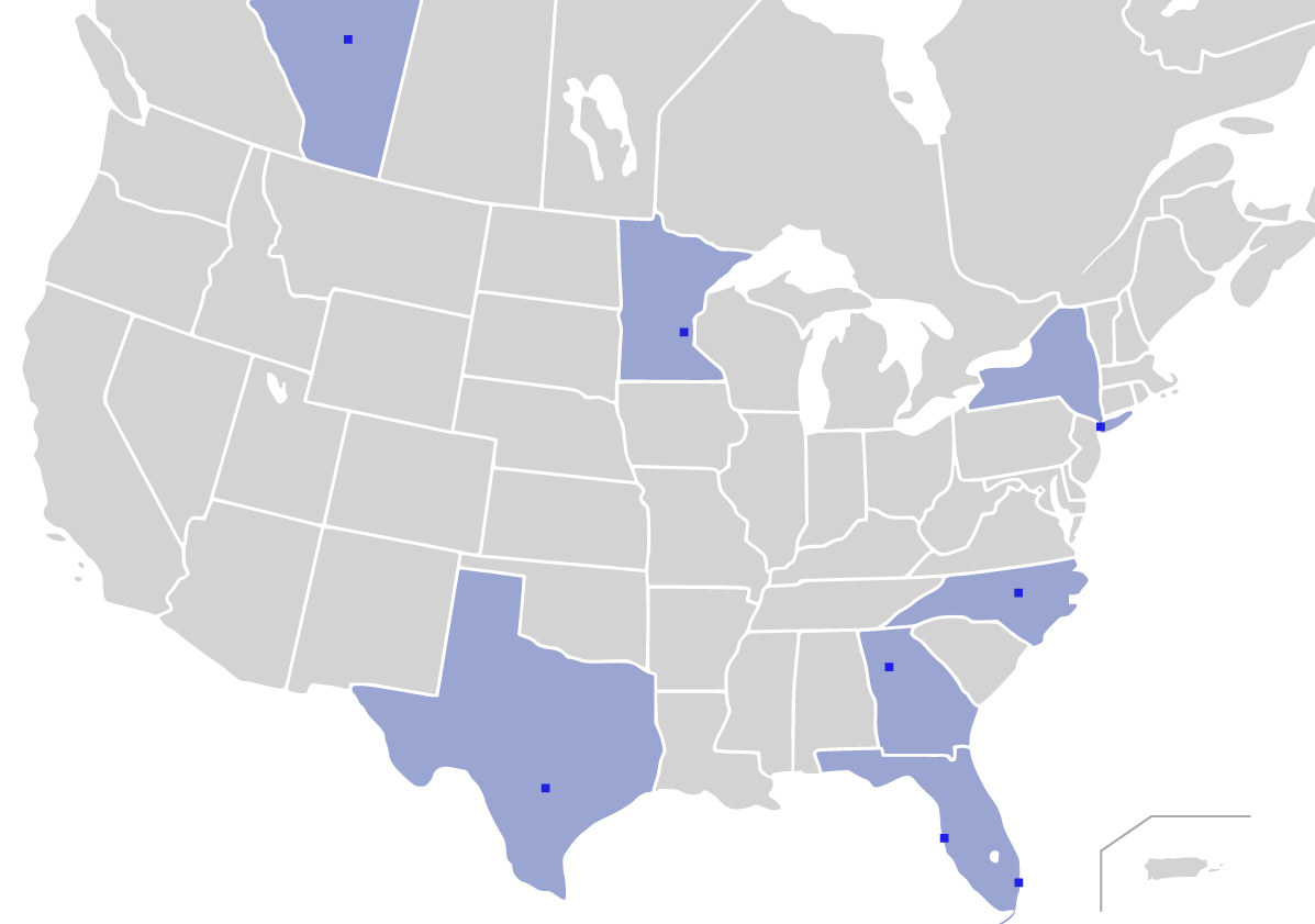 File:Map of USA and Canada, NASL.svg is a vector version of this file. It should be used in place of this raster image when not inferior. File:NASL 2013 club locations.png File:Map of USA and Canada, NASL.svg For more information, see Help:SVG. In other languages Locations of North American Soccer League teams. US states/Canadian provinces with teams marked.